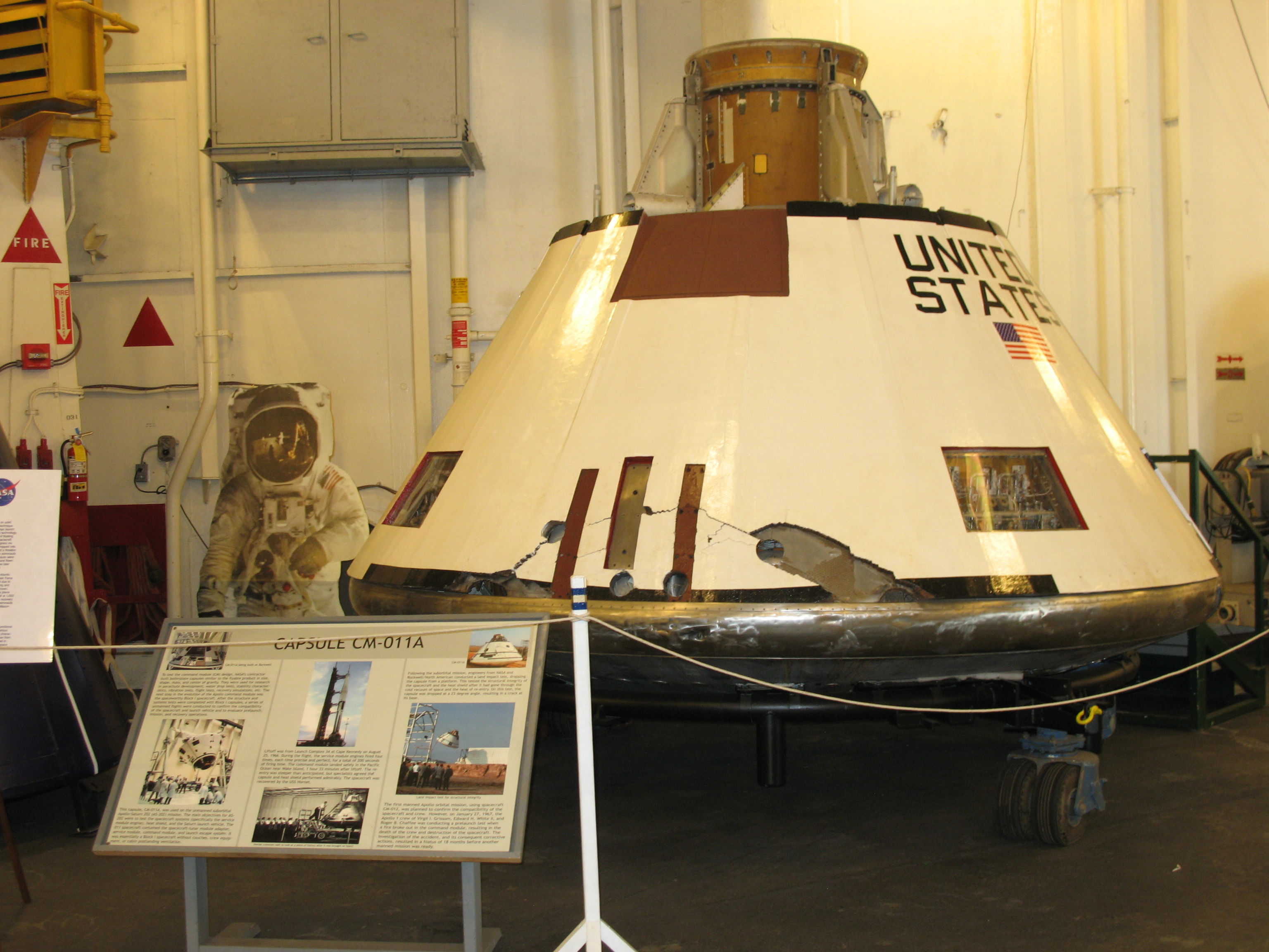 Apollo Command Module CM-011A, in the Apollo program exhibit on USS Hornet in Alameda, California. This command module was used in AS-202, an unmanned test flight, after which it was recovered by Hornet. The damage on the lower edge was caused by the capsule's subsequent use in a drop test. The spacesuited figure to the left is approximately life-sized.